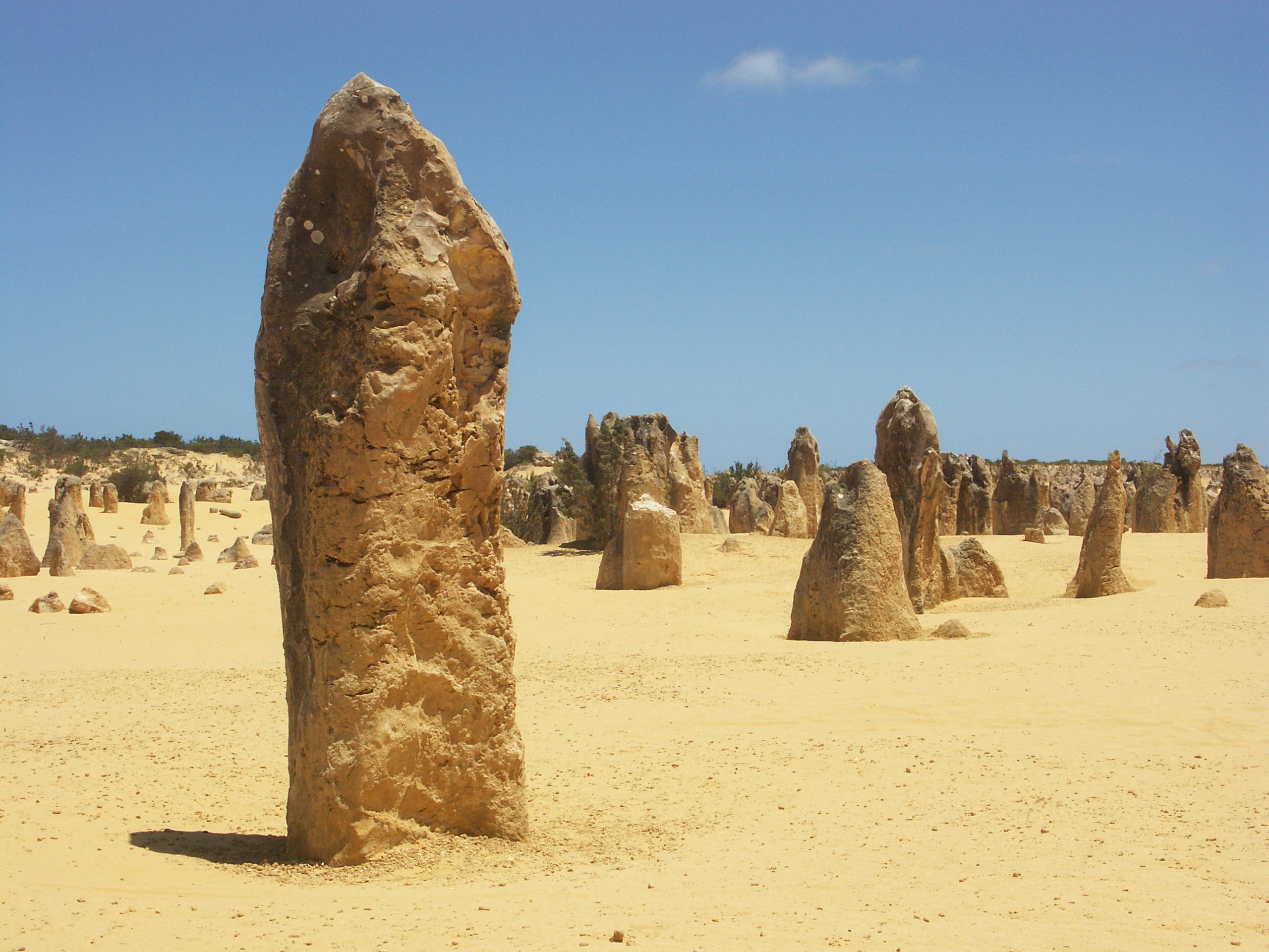 The Pinnacles Desert, Western Australia